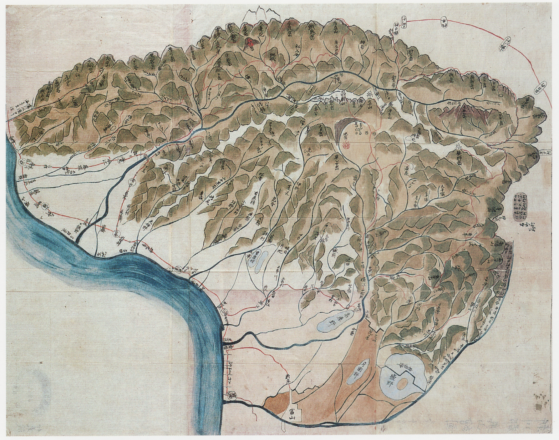 Illustrated map (copy) of the deep mountain in Niikawa County, Etchū Province in 1836.